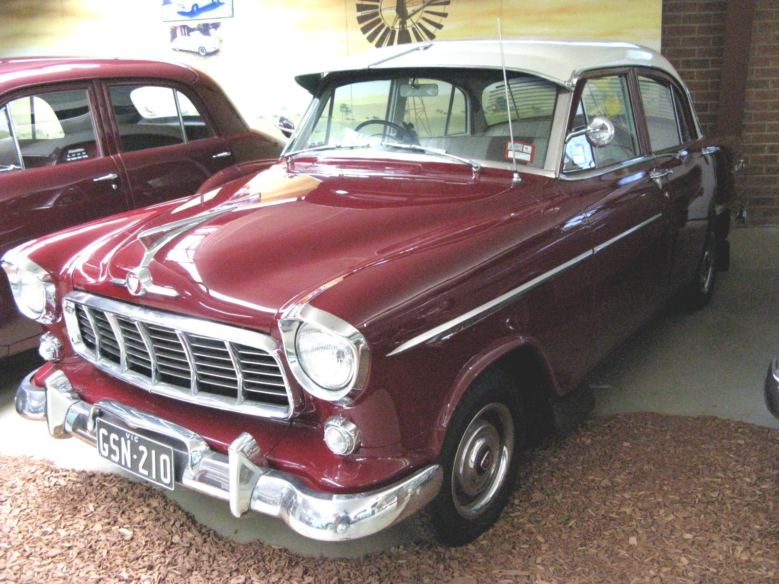 1956 Holden FE Special sedan, photographed at the National Holden Motor Museum, Echuca, Victoria, Australia.